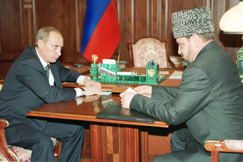 THE KREMLIN, MOSCOW. President Putin meeting with Akhmat Kadyrov, the head of the Chechen administration.